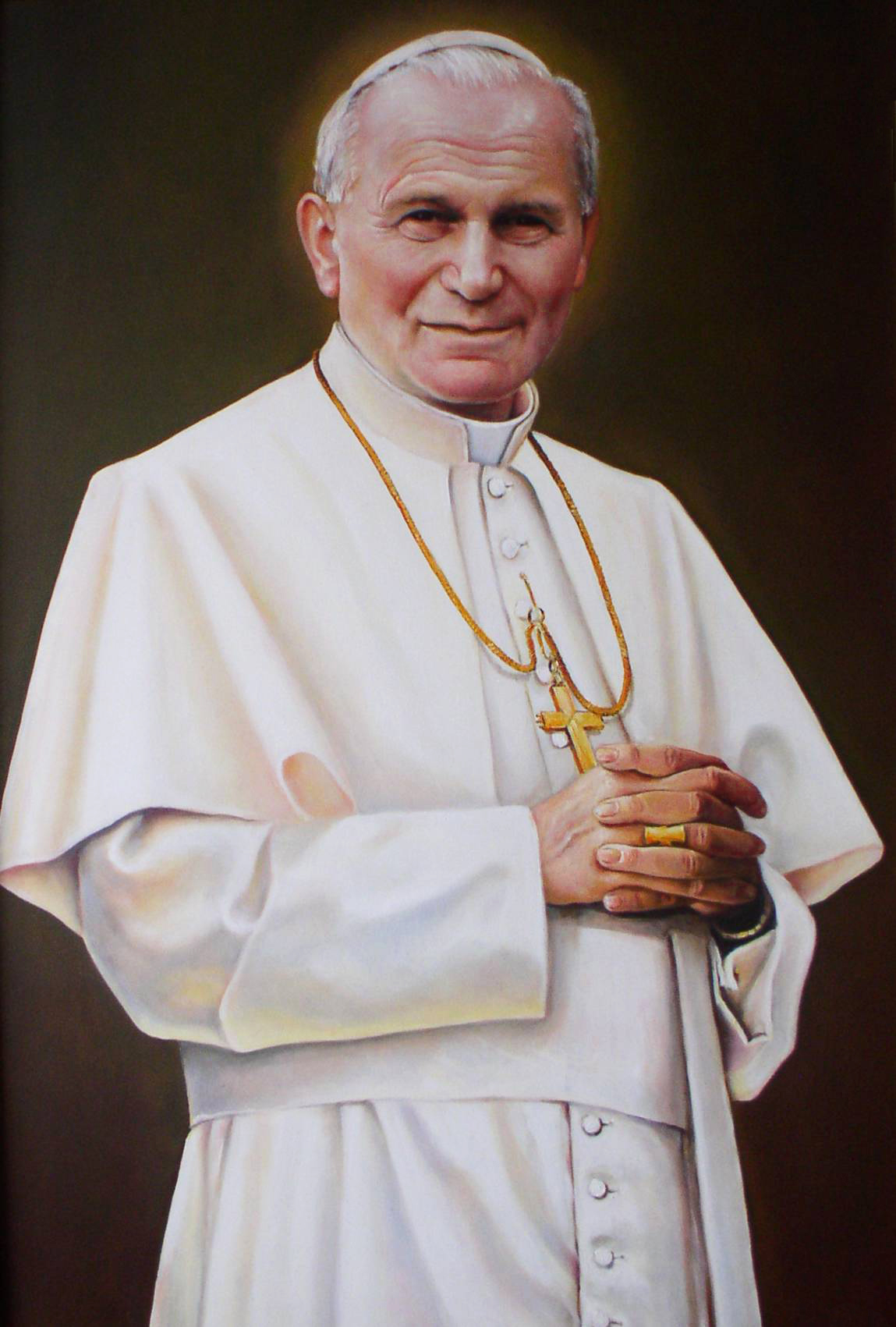 Portrait by Zbigniewa Kotyłły (Seminary Church of Lublin)